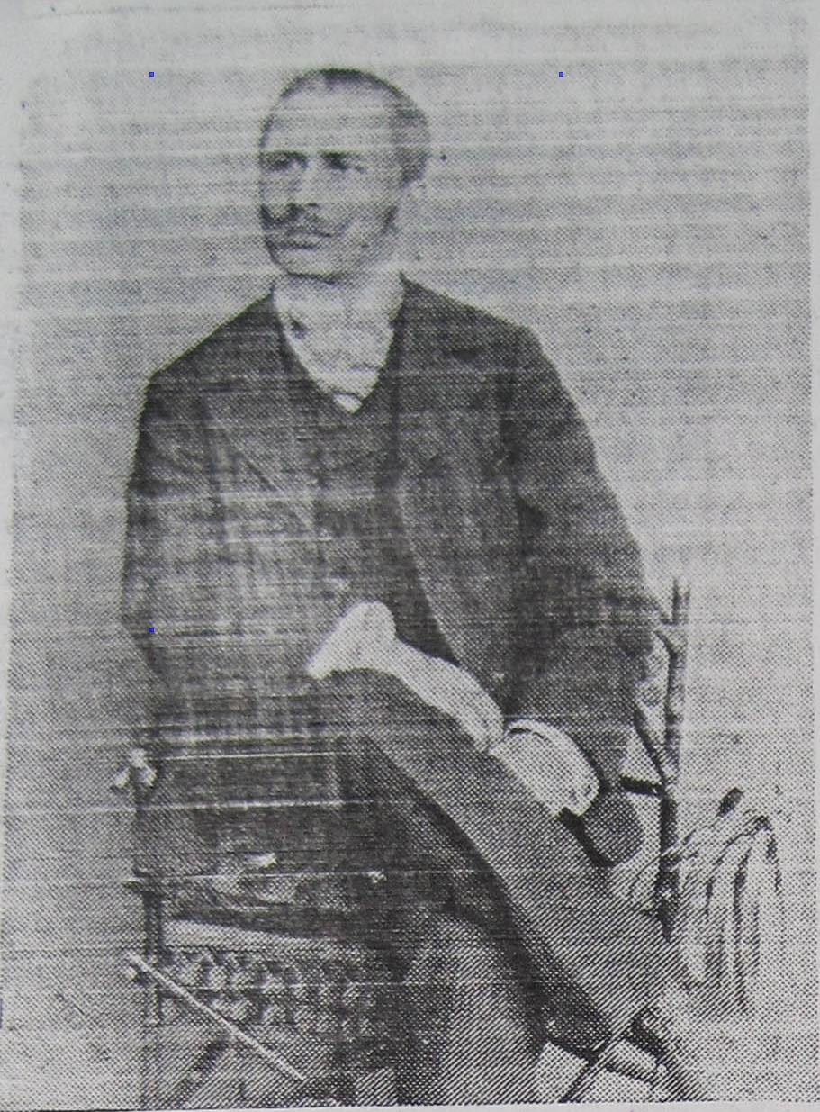 Portrait of Otto Sturmfels